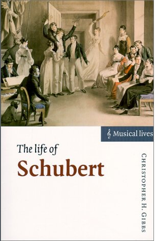 Christopher Gibbs Schubert